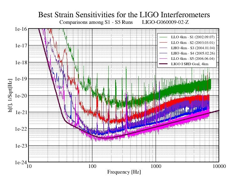 the progression in the strain sensitivity as a function of frequency for LIGO scientific run S1-S5.